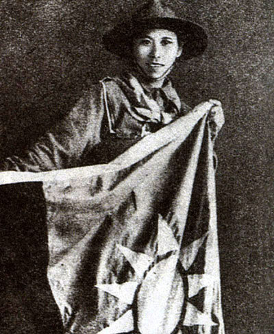 Girl Scout Yang Huimin with the ROC flag in the Battle of Shanghai (1937).